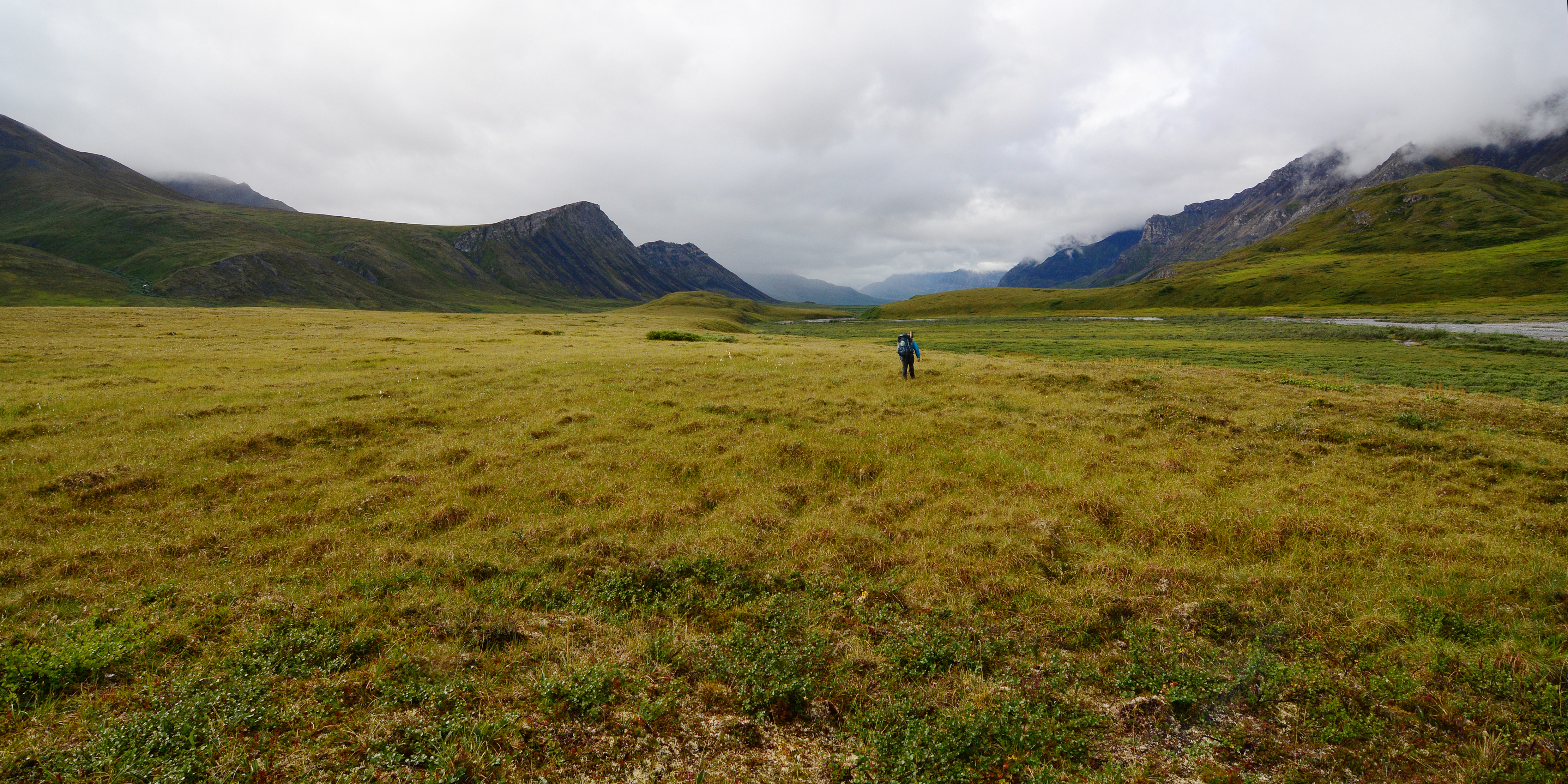 A hiker makes his way through tussocky tundra in the remote Anaktuvuk River Valley.